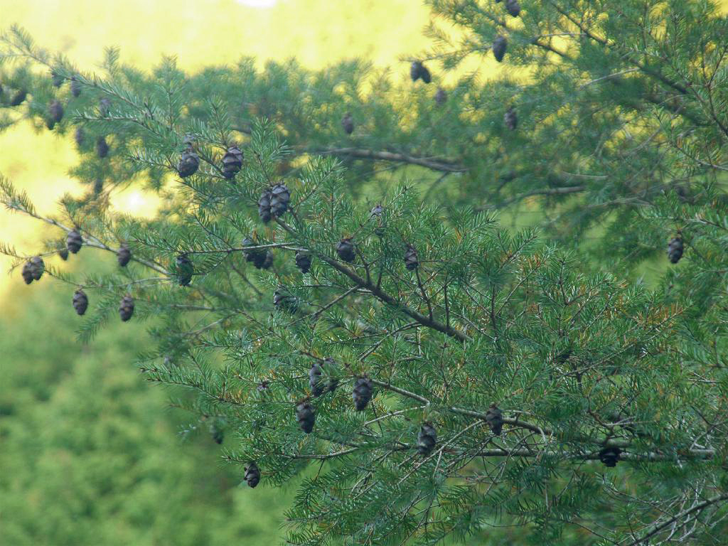 Pseudotsuga japonica (Pinaceae) Japanese name: togasawara ：トガサワラ Date; 2009-11-15; Tanabe City, Wakayama prefecture, Japan Author; Keisotyo